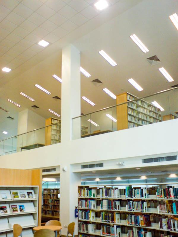 Millennia Institute Bukit Batok West Avenue 8 mindspace learning library 29 December 2006 Photographed by User:Slivester